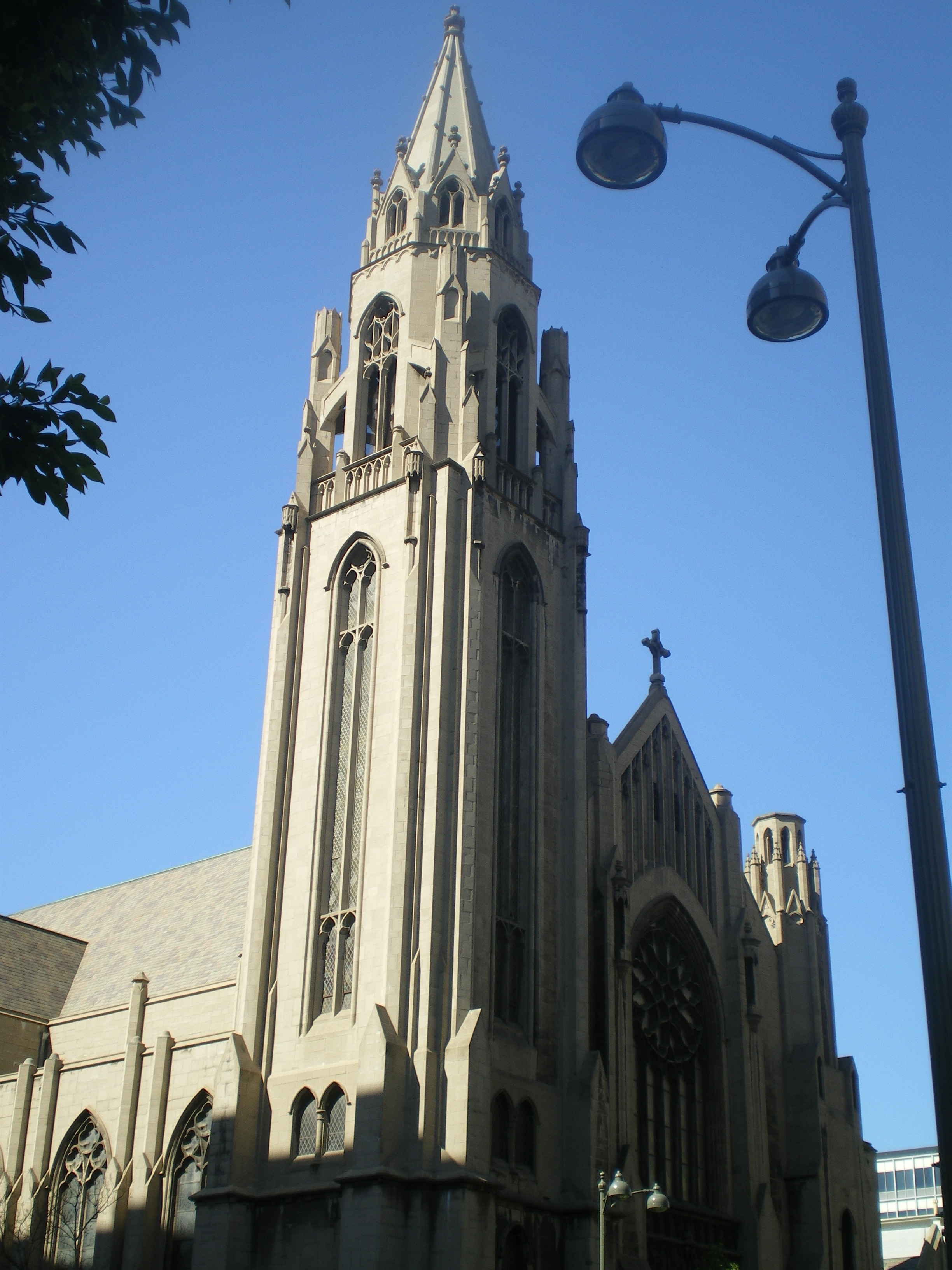 Immanuel Presbyterian Church (Wilshire Blvd., Los Angeles) Immanuel Presbyterian Church (Wilshire Blvd., Los Angeles, California)